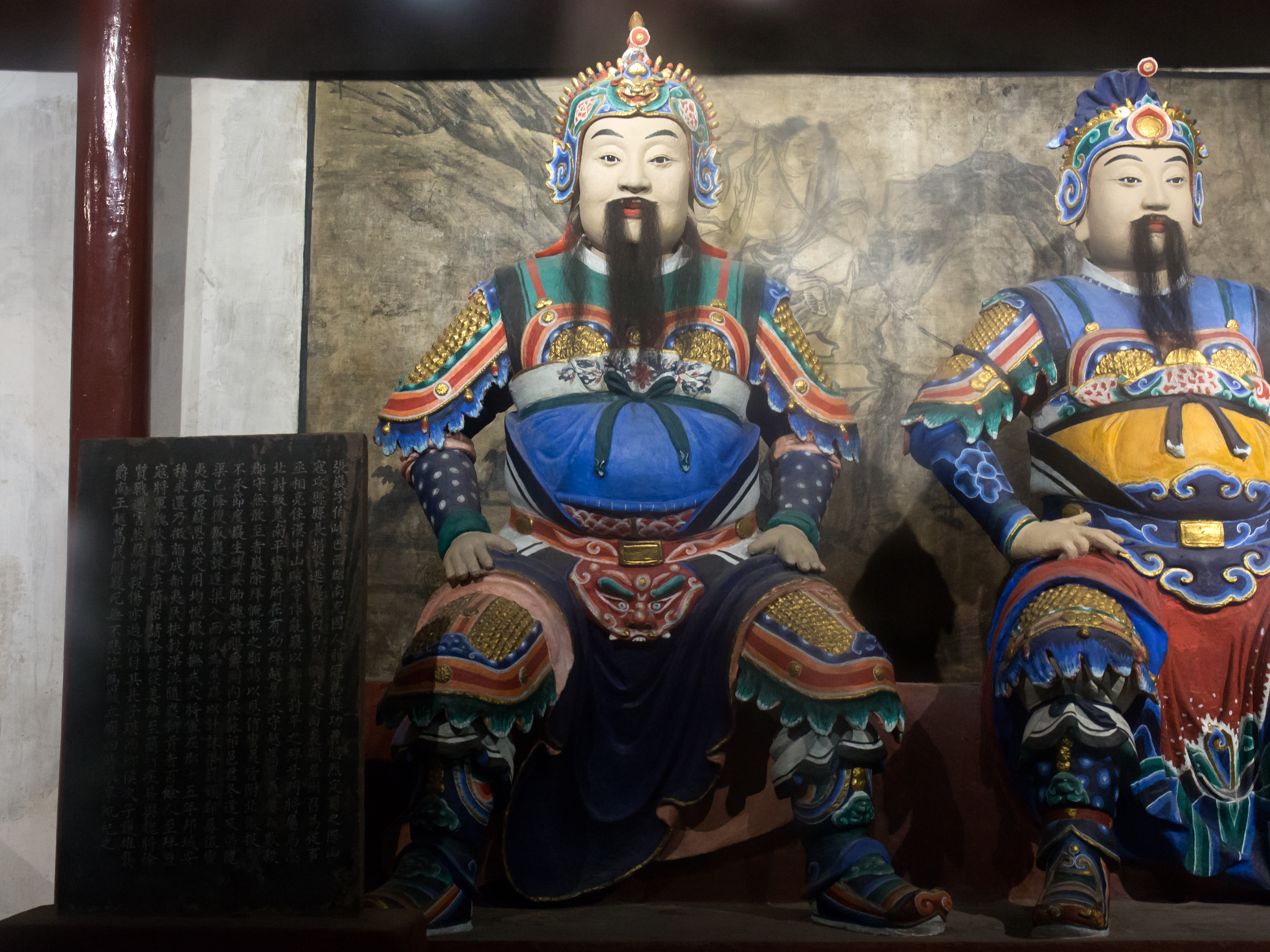 Zhang Ni (張嶷)